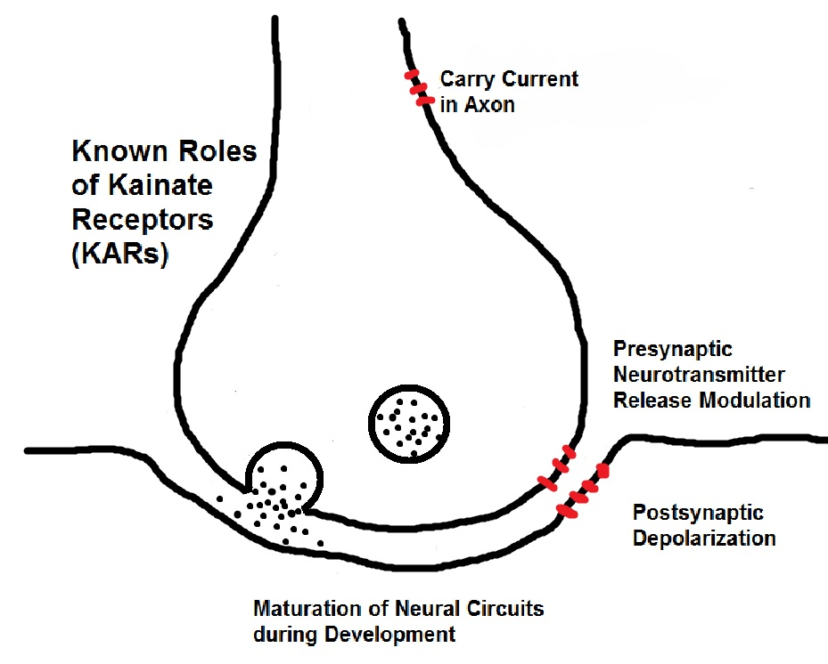 Kainate Receptors have been shown to play a wider variety of roles than previously thought. Aside from pre and post synaptic depolarization and repolarization, we have learned of their role in neurotransmitter modulation, axonal current-carrying, and their role in maturation of circuits during neural development.